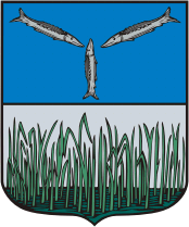 Kamyshin (Volgograd oblast), coat of arms (1781)